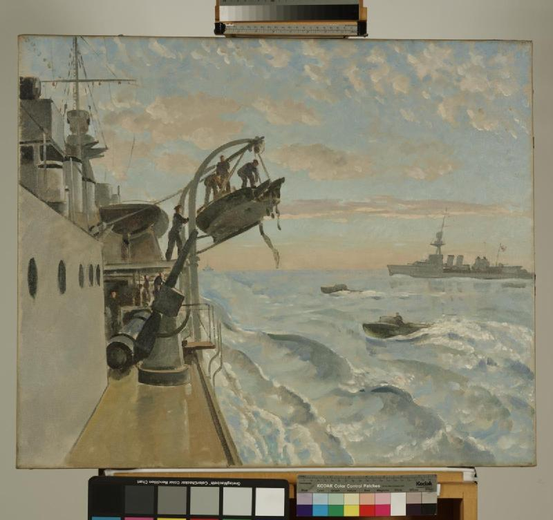 Coastal Motor Boats off the Frisian Coast, 11th August 1918 image: A view from the starboard-side deck of a warship. Two coastal motor boats appear to be moving towards the ship and there is another warship in the distance on the right. Sailors of the ship appear to be lowering a small boat into the sea and there is an anti-aircraft gun on the deck in the foreground. The main mast, two funnels and other parts of the ship's superstructure are visible to the left.